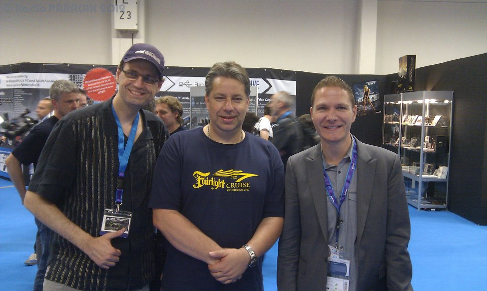 Chris Hülsbeck (left) - Willi Bäcker (center) - Julian Eggebrecht (right) at Gamescom 2012 (Cologne).